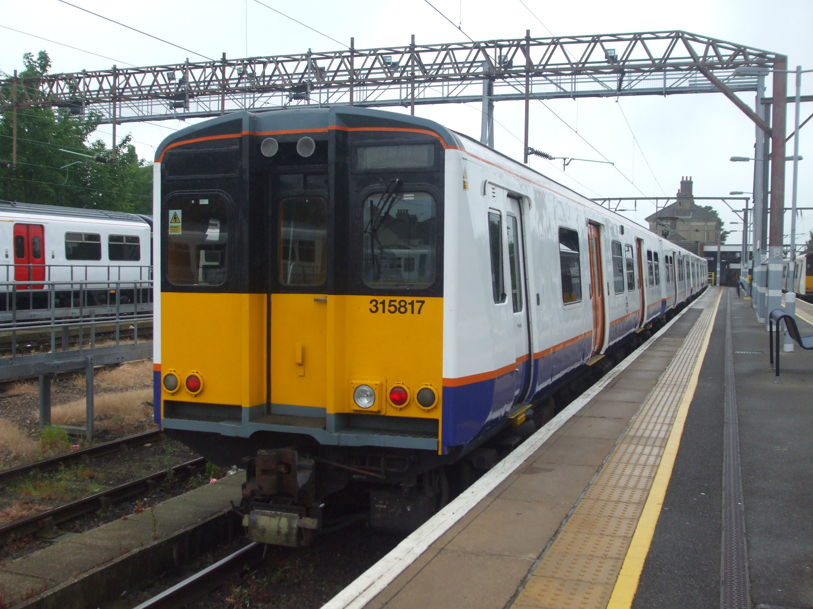 Class 315 unit 315817 newly repainted in London Overground colours, seen at Chingford in June 2015